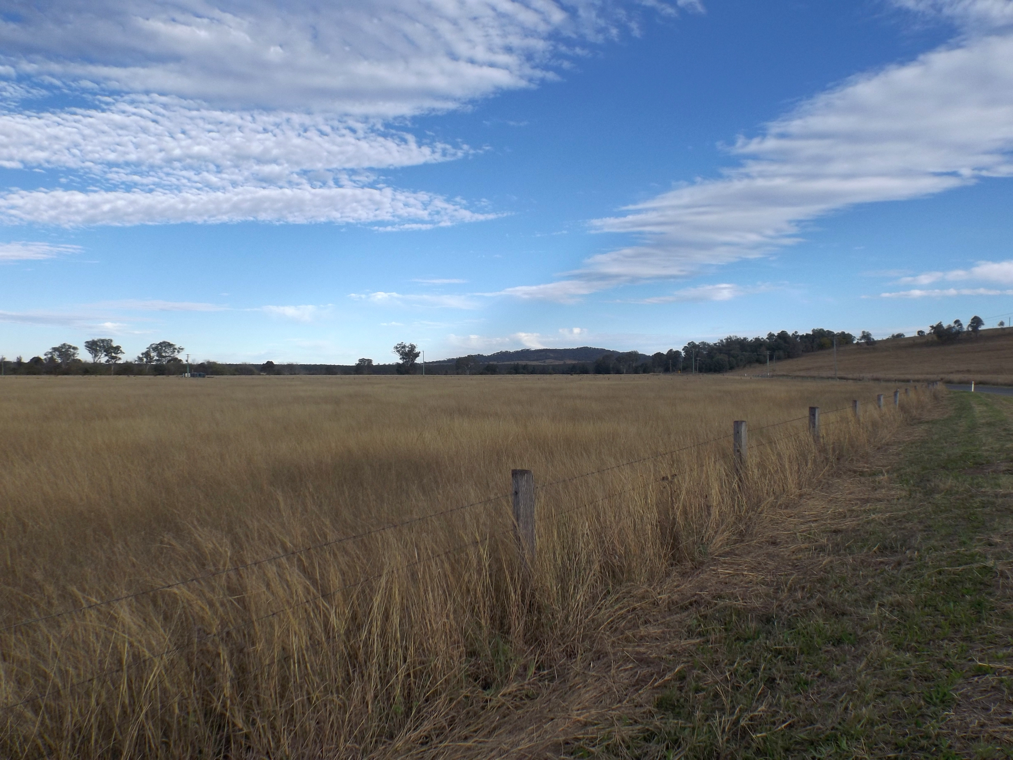 Photo of fields along Grandchester Mount Mort Road at Mount Mort, Ipswich, Queensland, Australia.